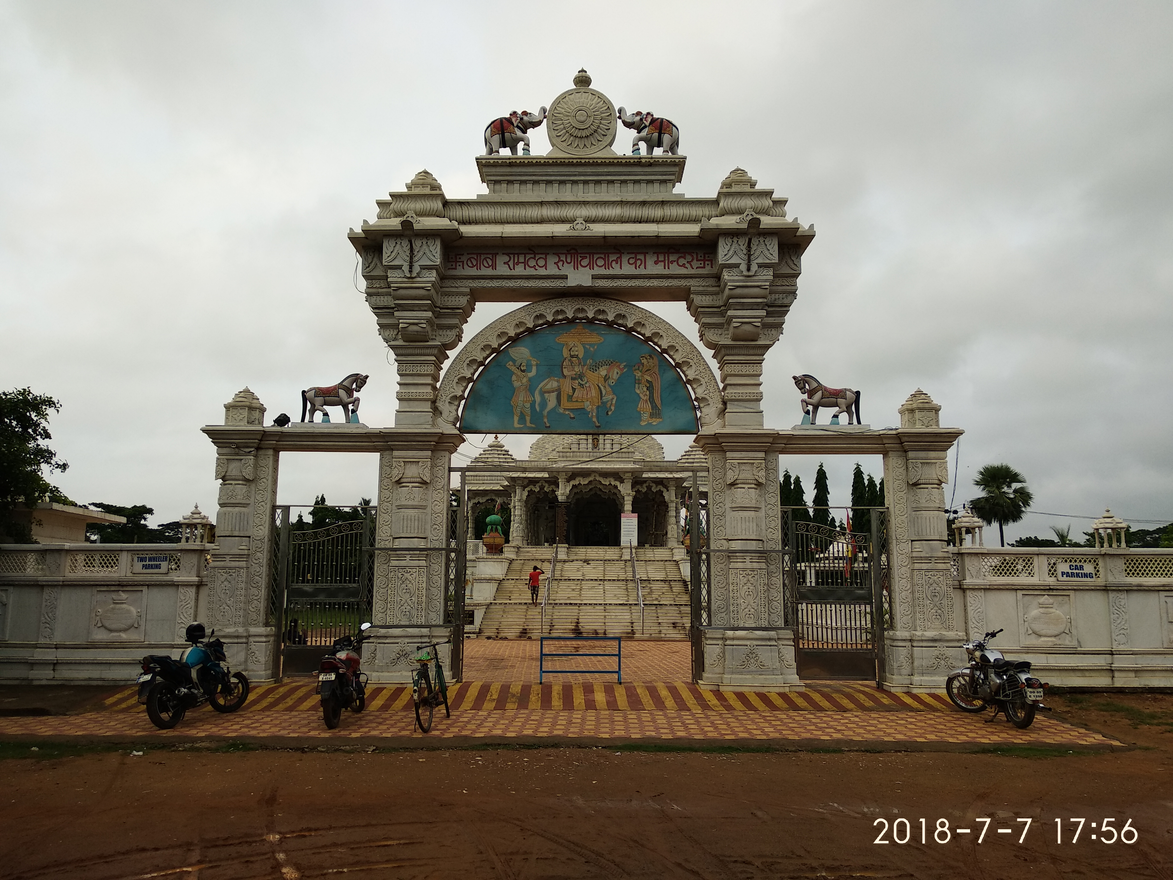 One of the largest ramdev Baba Temple in India (After Runicha Temple). Made by "Baba ramdev ji Runicha wale trust" (Madanlal ji Agarwal) ji on 29th Jan. 2015.